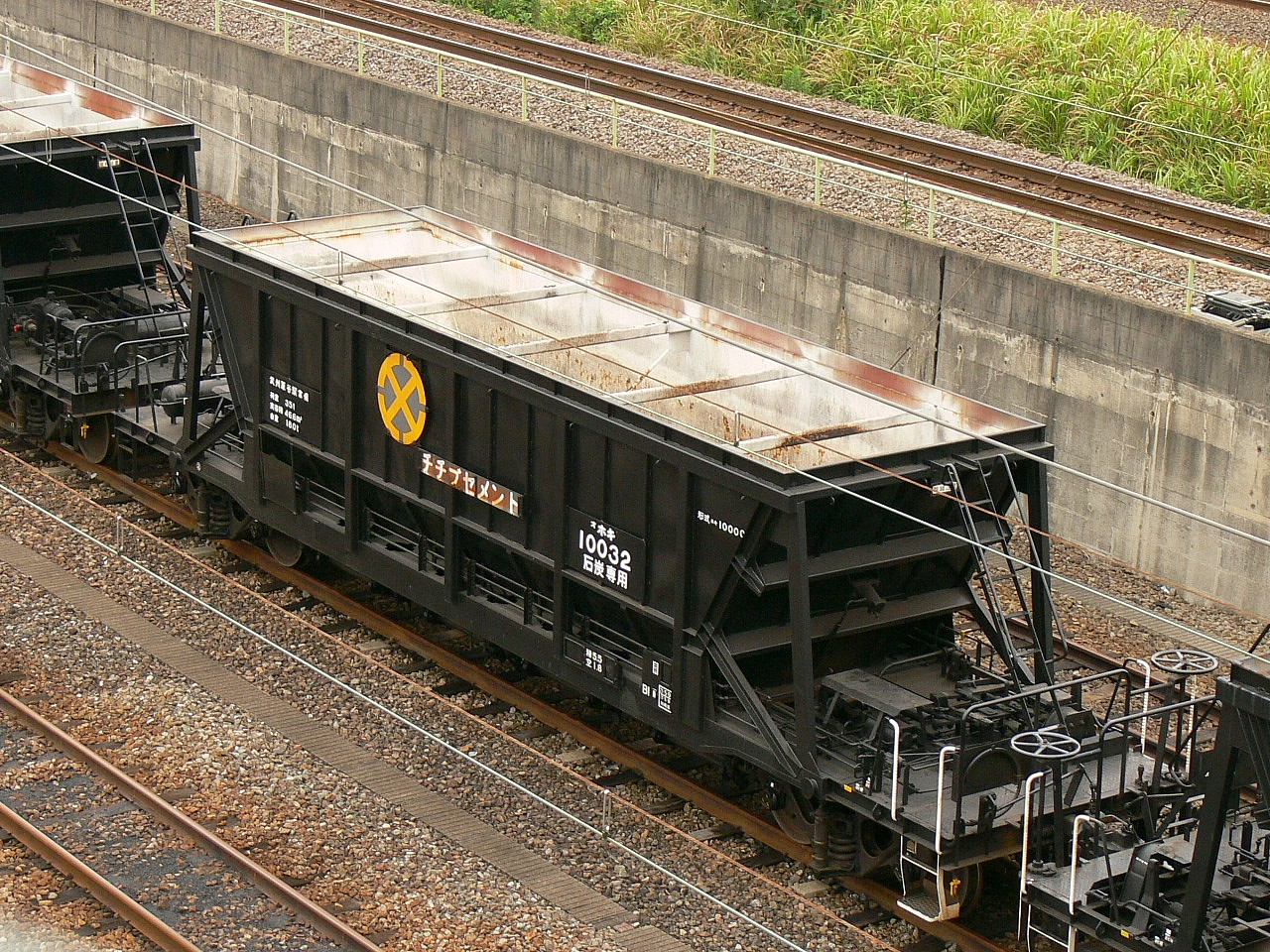 Taiheiyo cement Type Hoki 10000 Hopper car only for coal, Japan. It takes a picture from the viaduct at the Kumagaya freight terminal station.